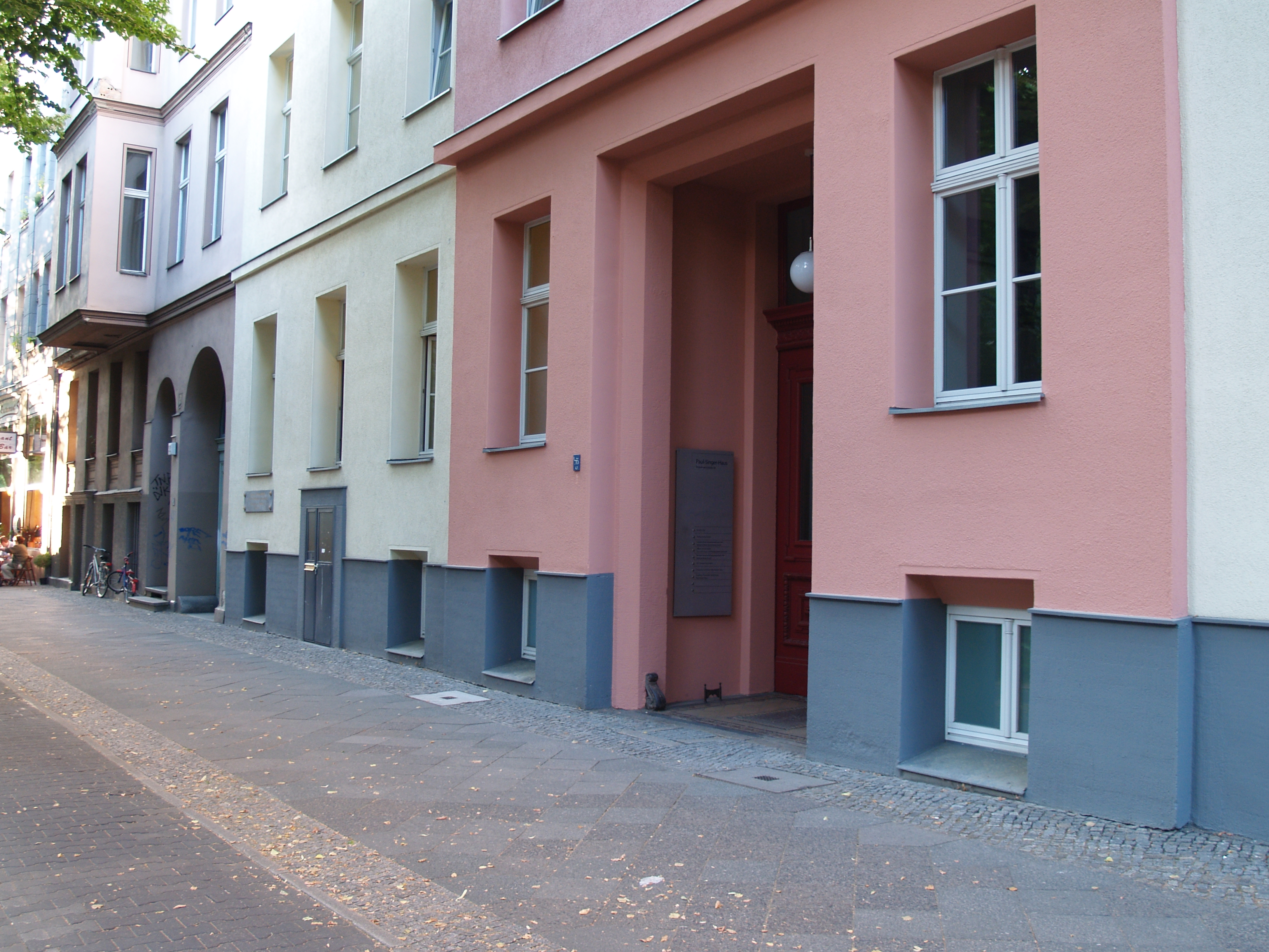 The Stresemannstreet 30 where the Plamann-School was lokated